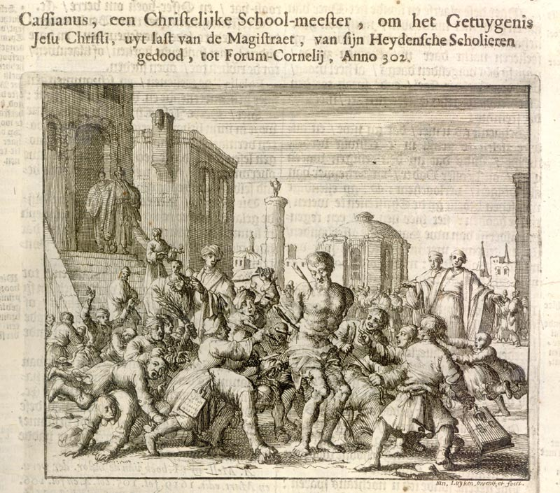 "Cassianus (Cassian) of Imola killed by his students." From the Martyrs Mirror, this is an etching by Jan Luyken (1649-1712).